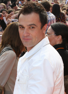 Shannon Noll attending the 2011 Nickelodeon Australian Kids Choice Awards.